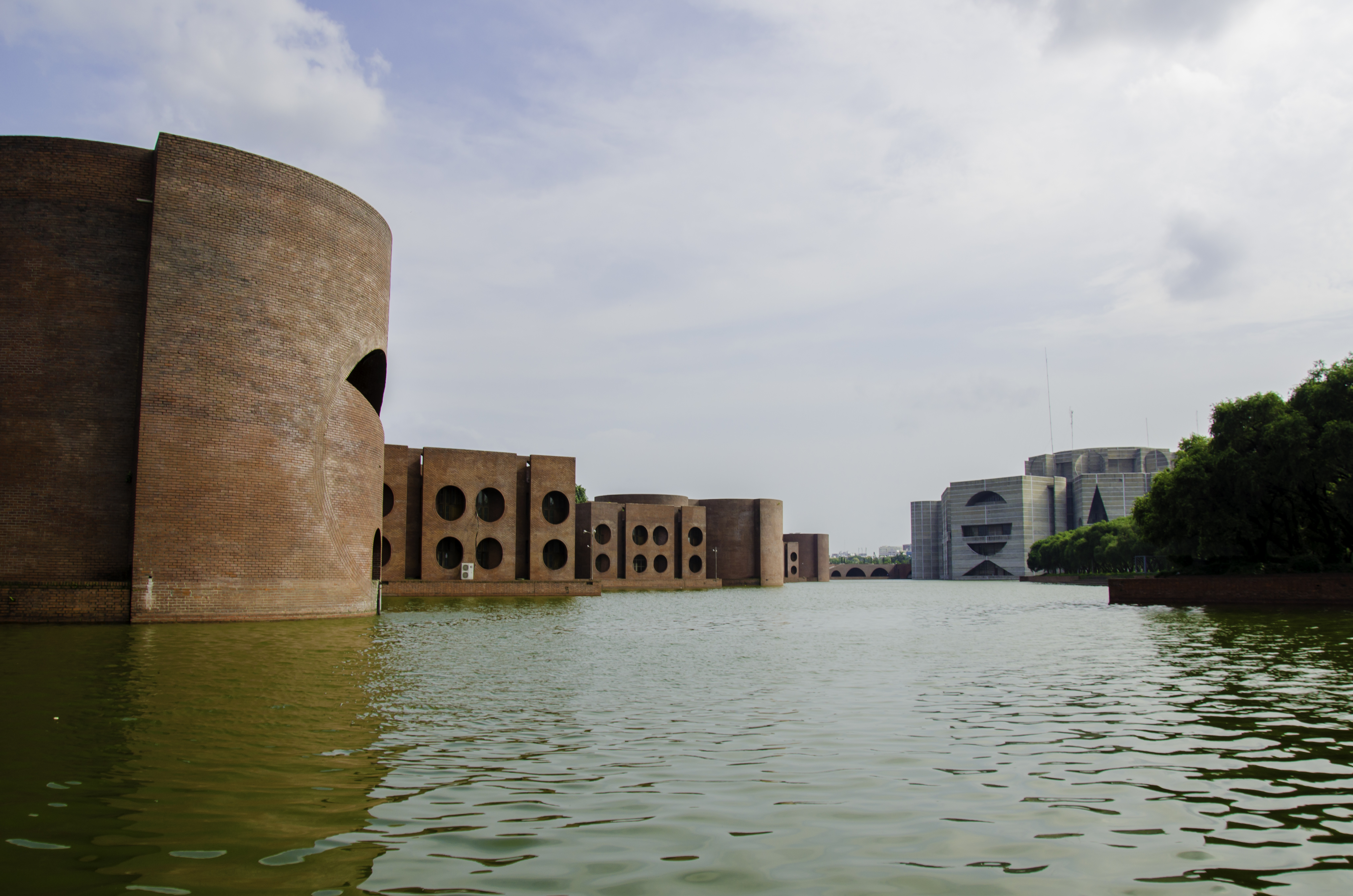 Jatiyo Sangsad Bhaban, Bangladesh.